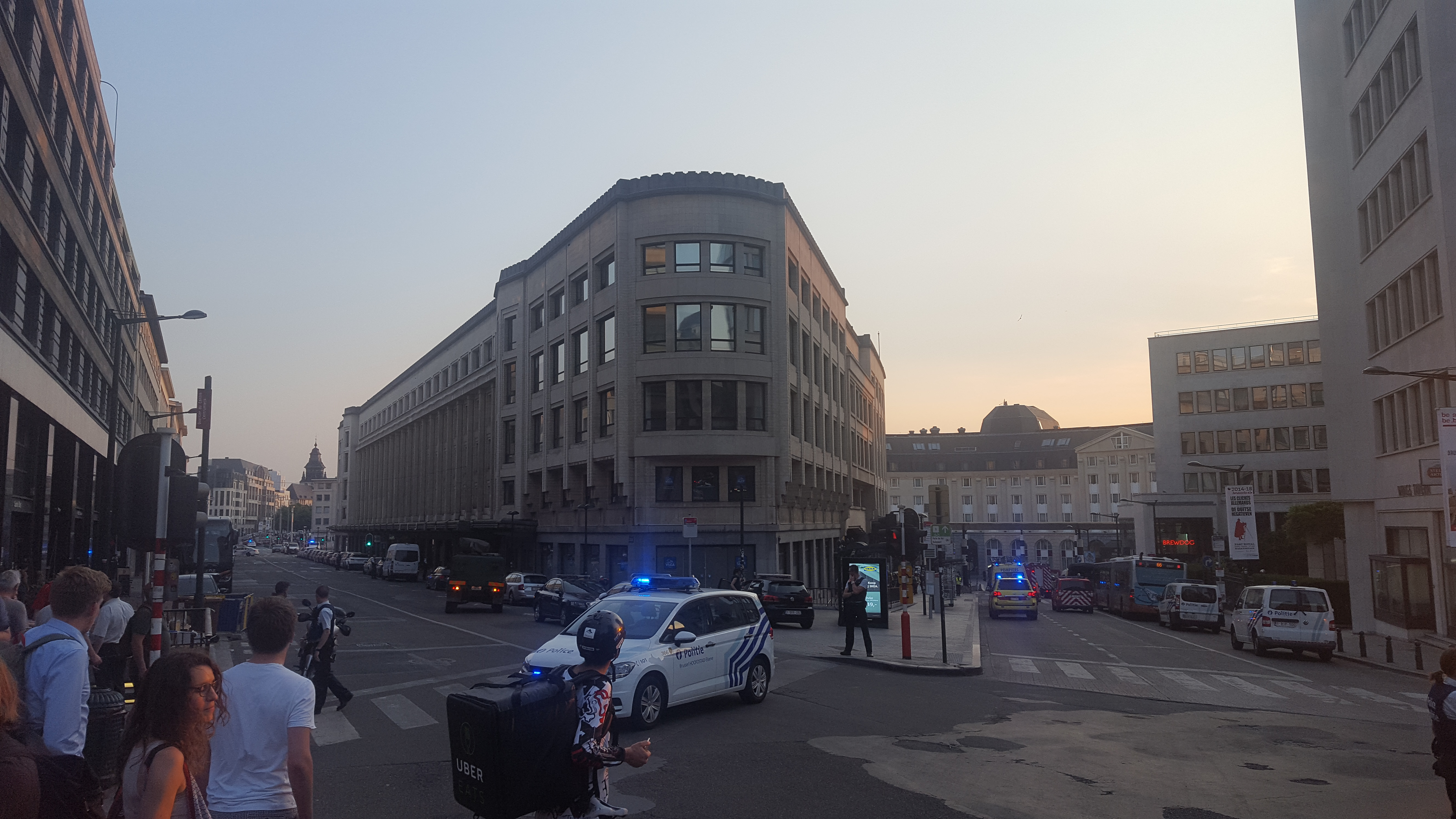 police is closing of the area around Brussels Central train station, Belgium, on 20 June 2017